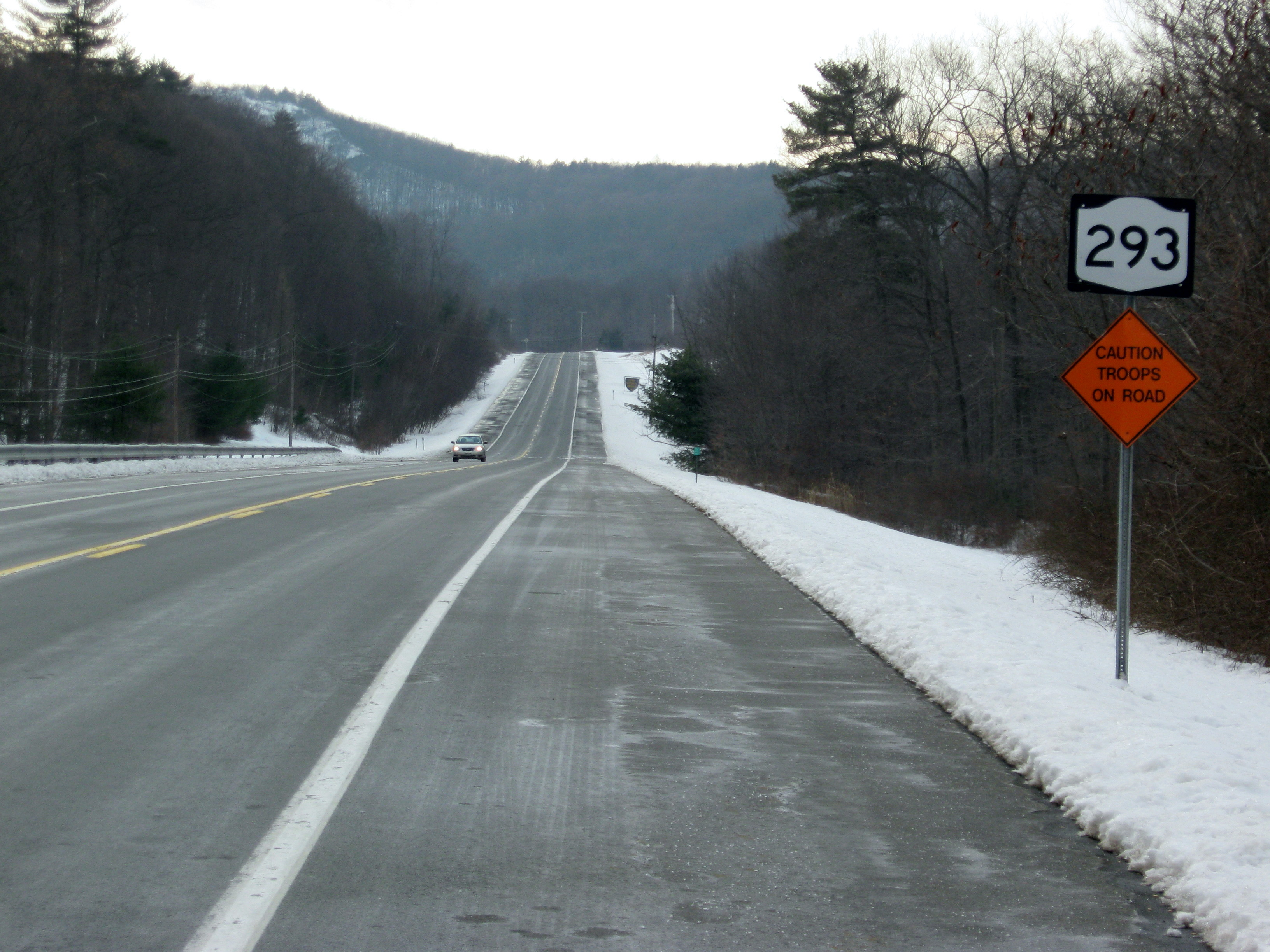 New York State Route 293 southbound headed toward US 6(Long Mountain Parkway) in Highlands, New York. Note the temporary "Troops on Road" sign beneath the NY 293 shield.